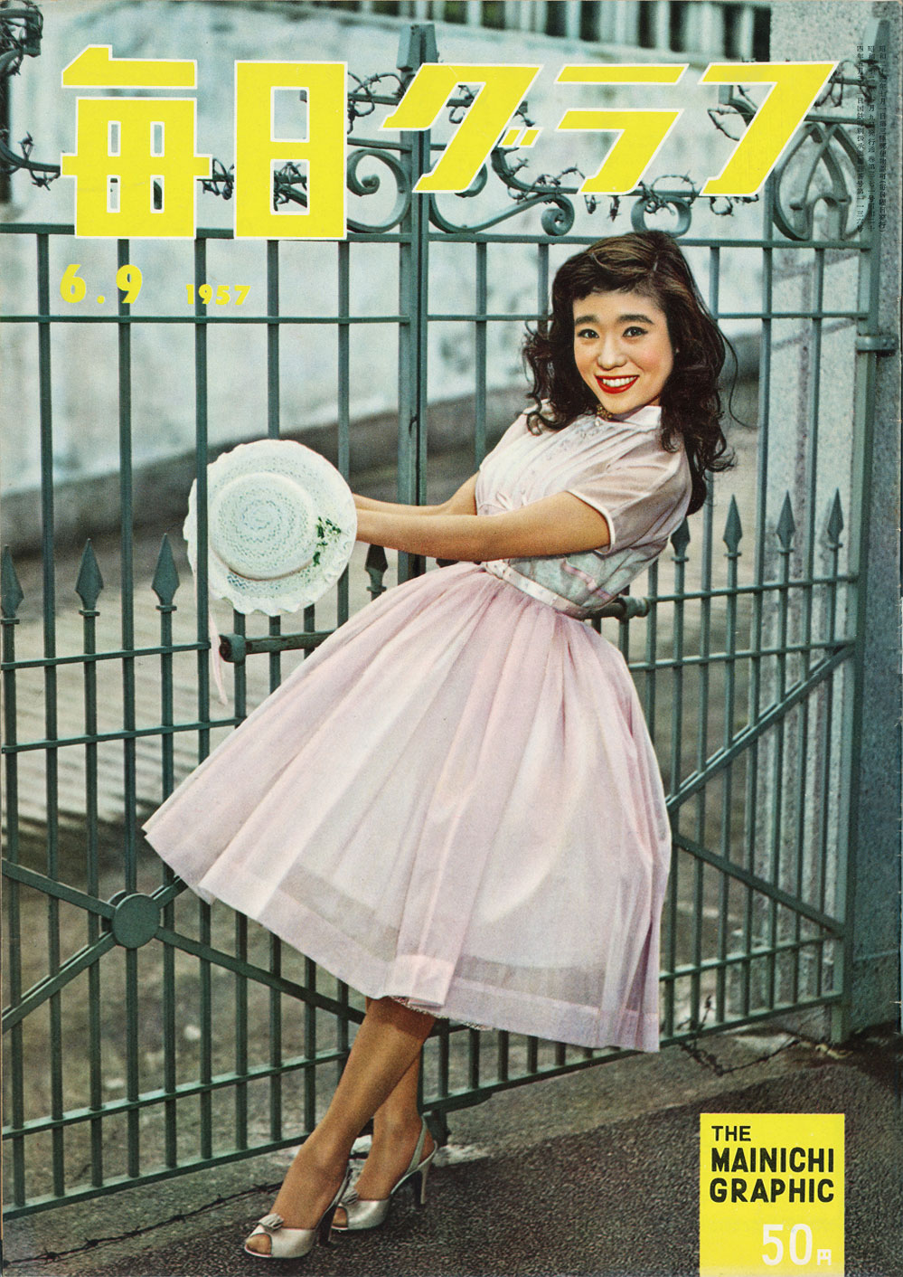 Cover of the Japanese magazine The Mainichi Graphic (Defunct magazine).